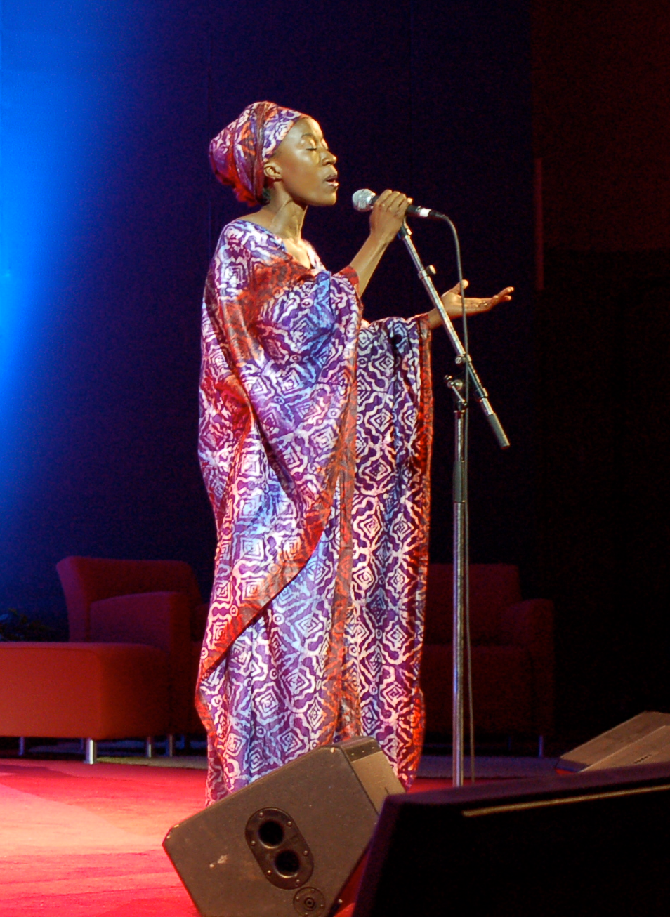 Rokia Traoré at TED in 2007